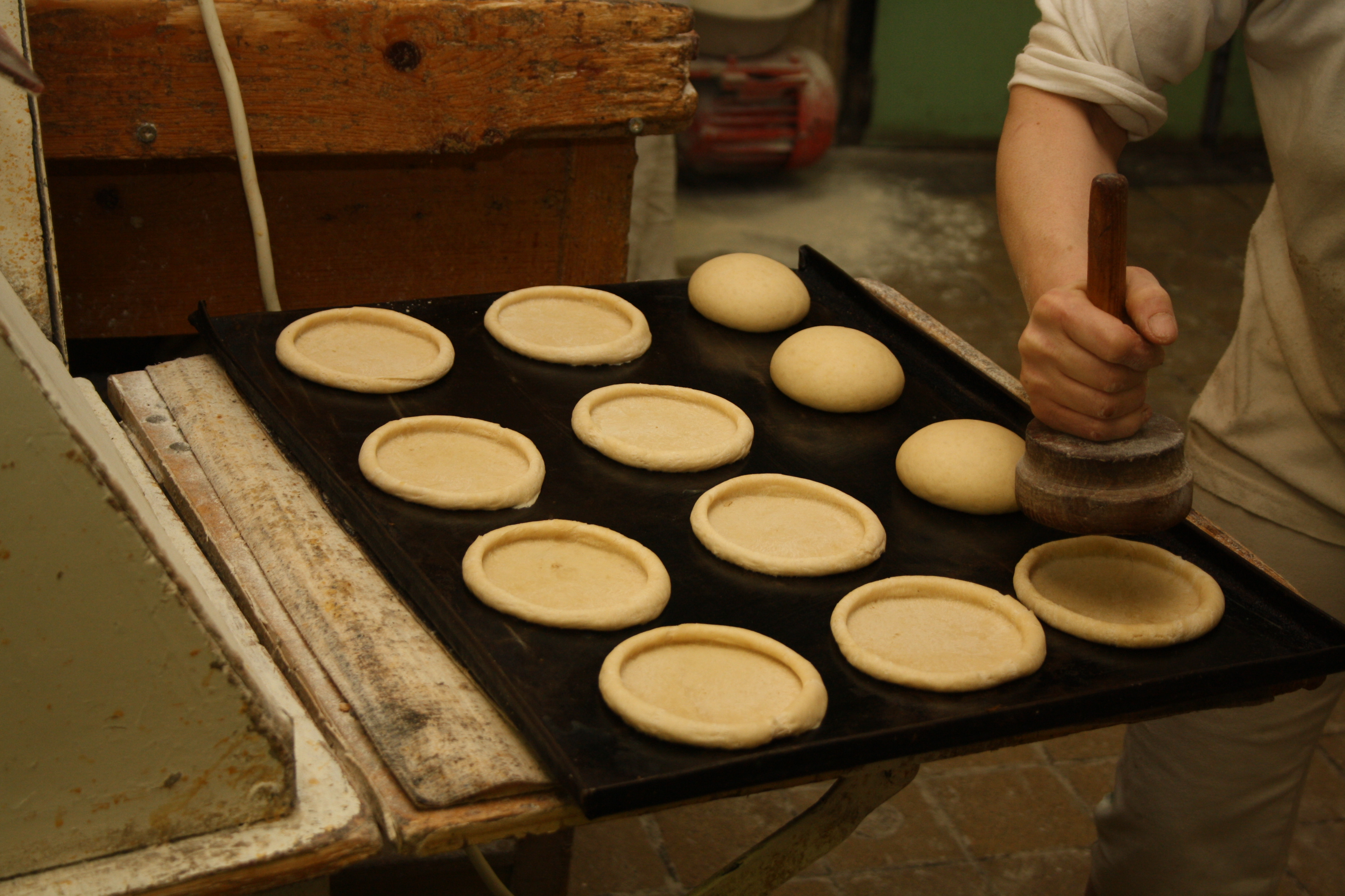 Production process of czech cake.